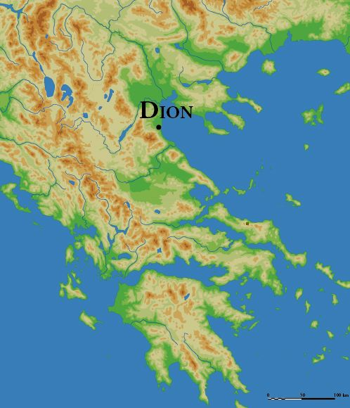 Dion location in Greece. Drawing by Marsyas.